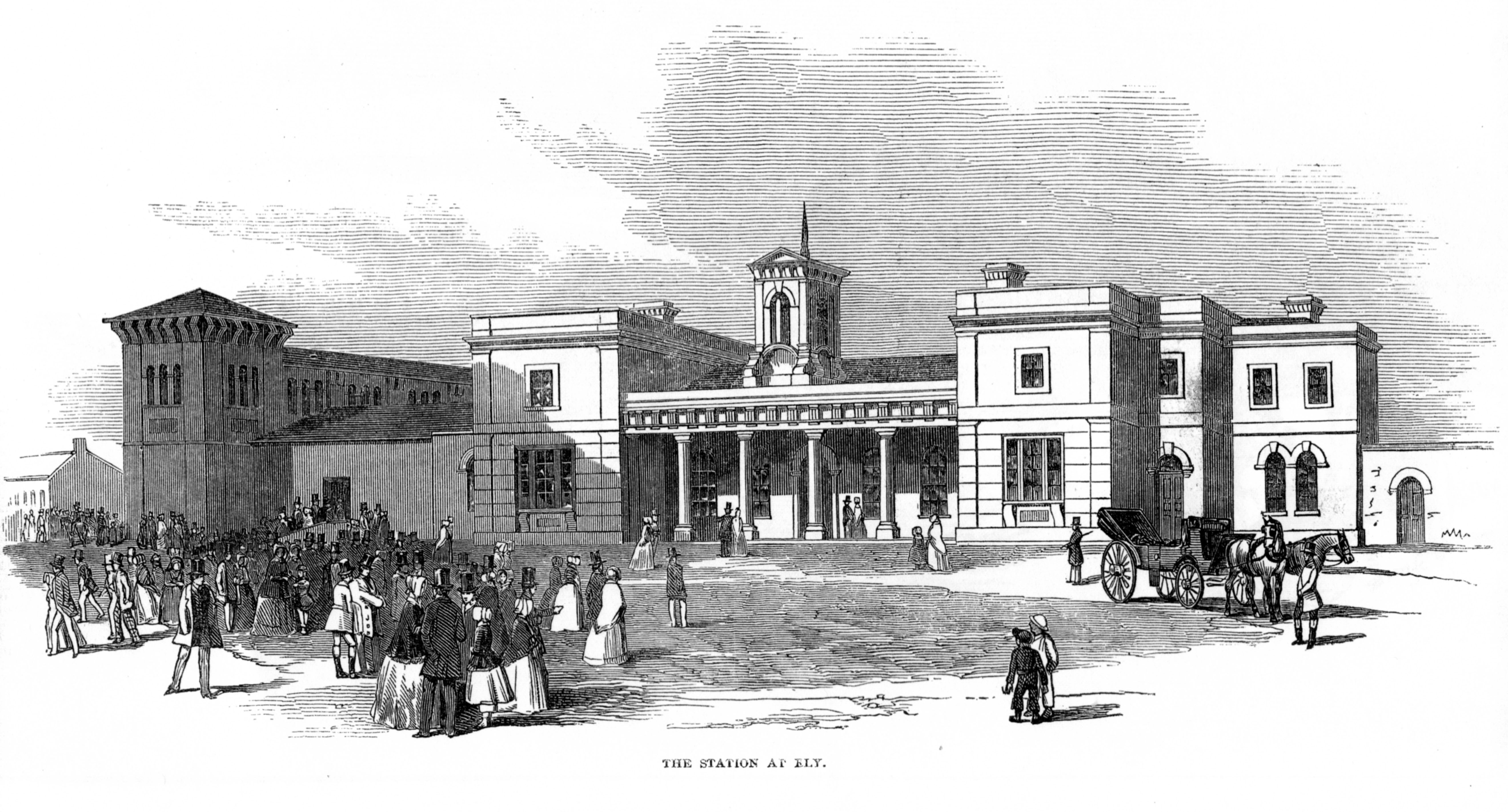 Illustration from the Illustrated London News vol. XI 30 October 1847 p. 277 showing the station that opened "... Monday last, with great éclat"